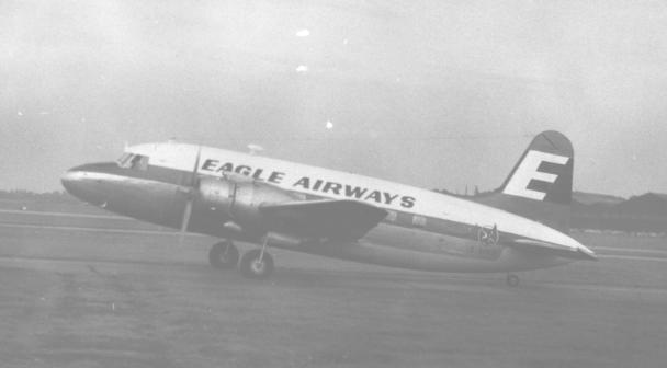 Eagle Airways Vickers Viking 3B at Manchester England